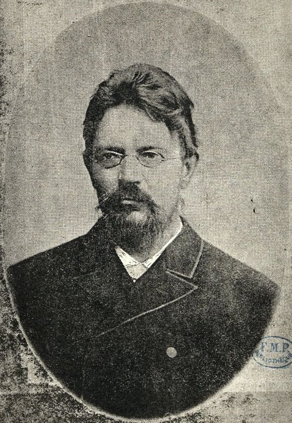 Erast Salistschev